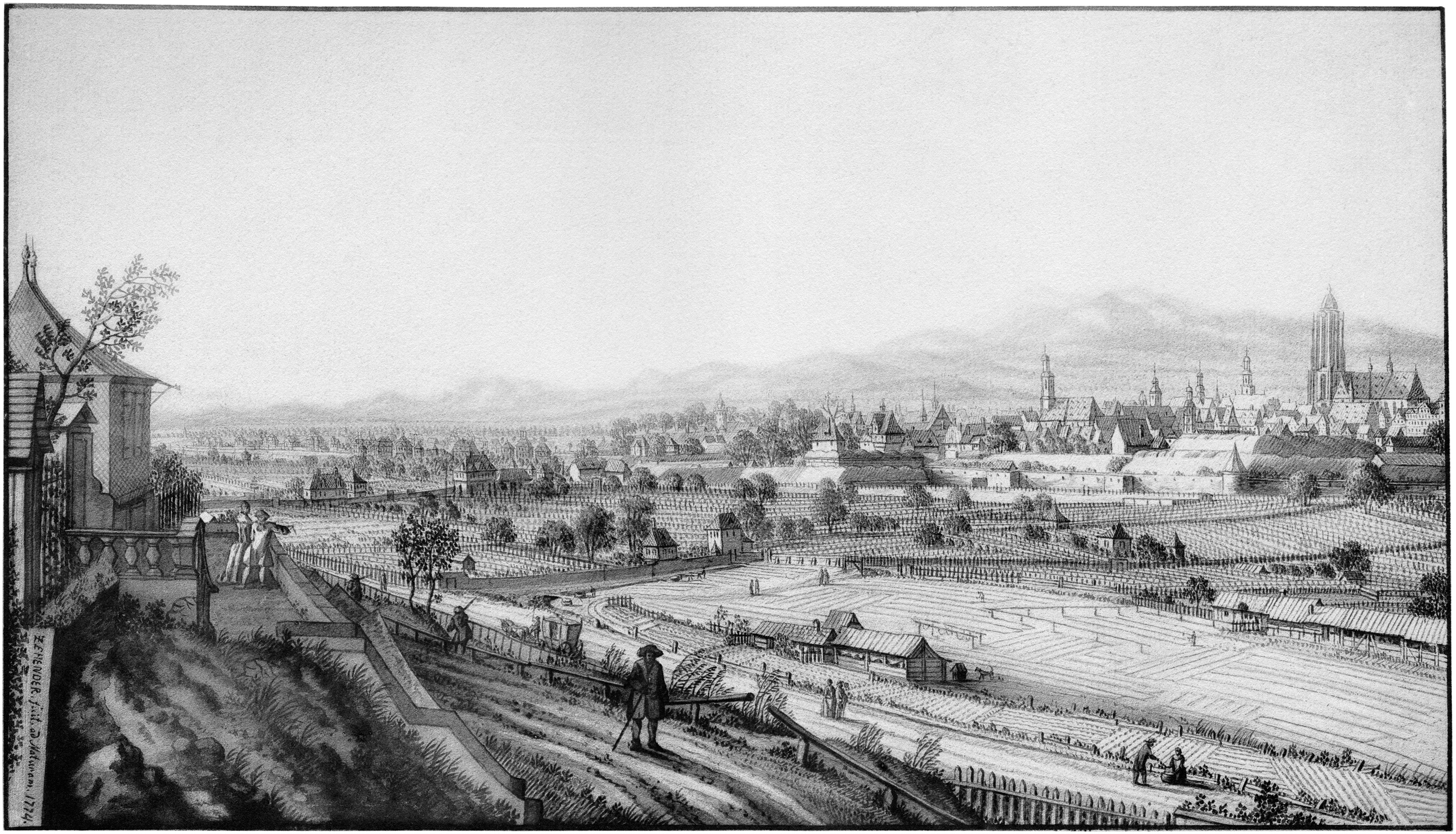 Frankfurt on the Main: Prospect of the city as seen from the Muehlberg (Mill Mountain)